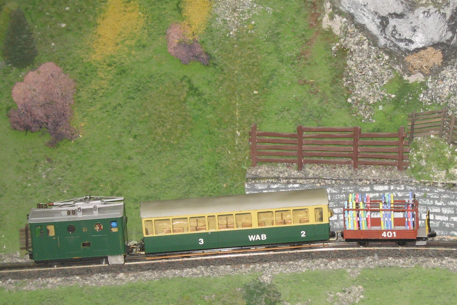 Oe gauge rack railway in Bern, Switzerland.